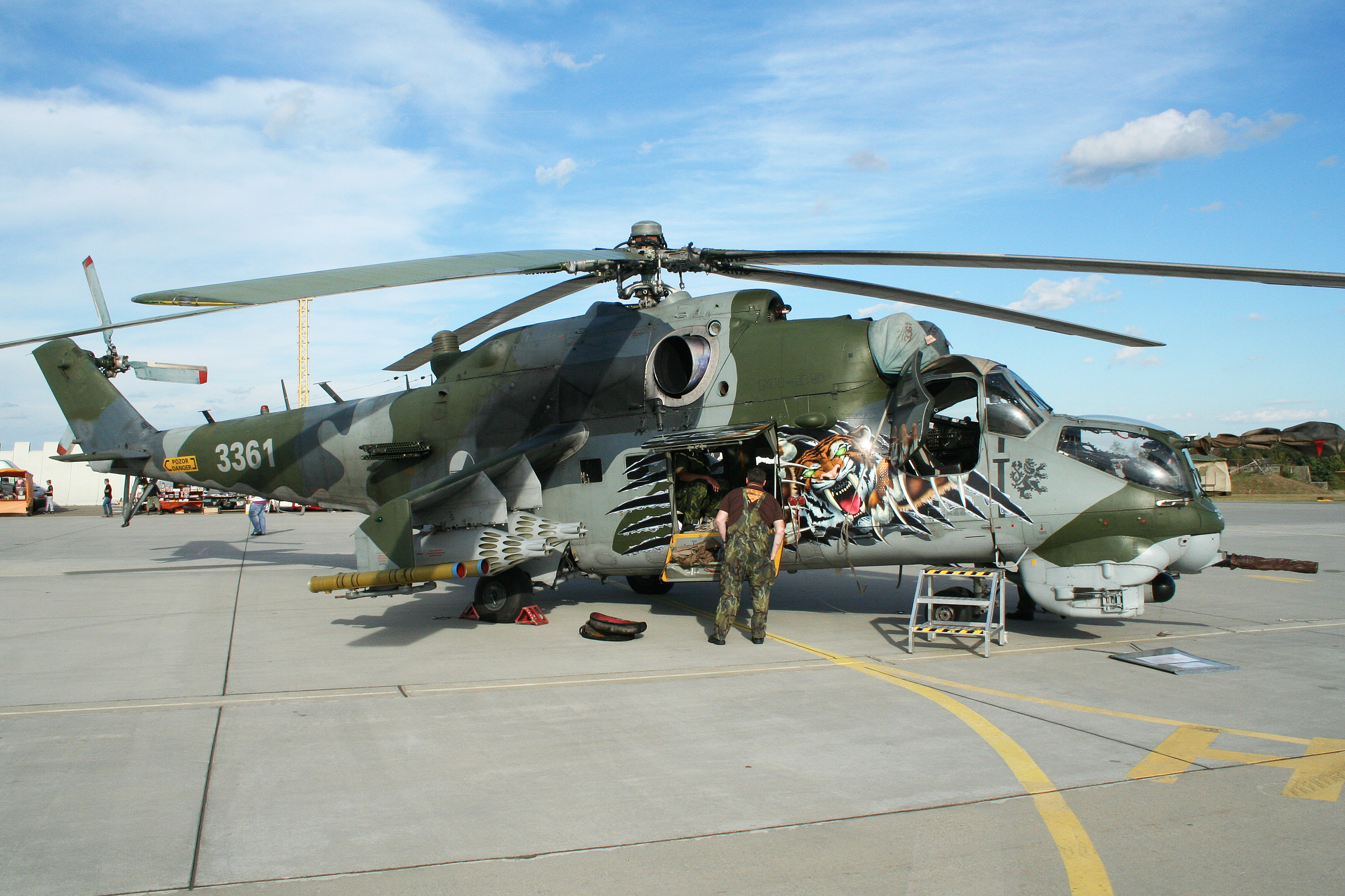 Operated by the based unit 221.lbvr. Another Hind with Tiger markings, great stuff! msn 203361. On static display at the Namest Open Day, Czech Republic. 06-10-2012